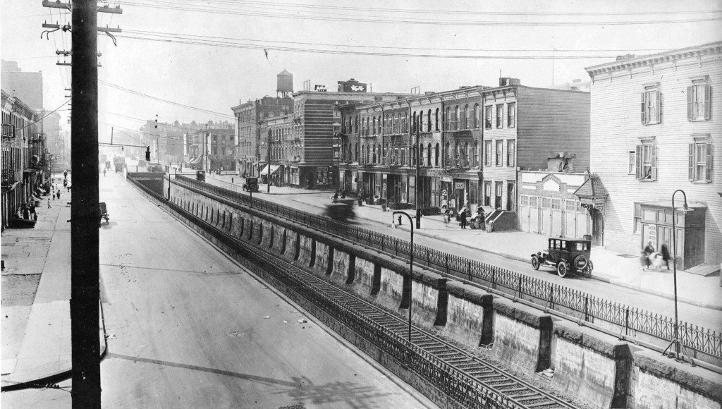 Atlantic Ave looking west from the Sackman St bridge. Long Island Railroad emerging from a tunnel. New 1920s cars zoom along as kids play on the sidewalk. Brooklyn, New York. 1922